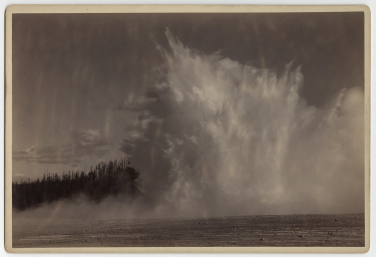 Title: Excelsior Geyser Creator: Haynes, F. Jay (Frank Jay), 1853-1921 Date: 1888 Part Of: F. Jay Haynes photographs of Yellowstone National Park Series: Broad panel views, Yellowstone Park Physical Description: 1 photographic print: albumen; 20.3 x 30.2 cm. on 21.5 x 31.5 cm. mount Form/Genre: Photographs; Photographic prints; Albumen prints; Landscape photographs; Photograph albums File: ag1982_0035_01_07r_opt.tif Rights: Please cite Southern Methodist University, Central University Libraries, DeGolyer Library when using this image file. A high-quality version of this file may be obtained for a fee by contacting . For more information, see: View U.S. West: Photographs, Manuscripts, and Imprints at